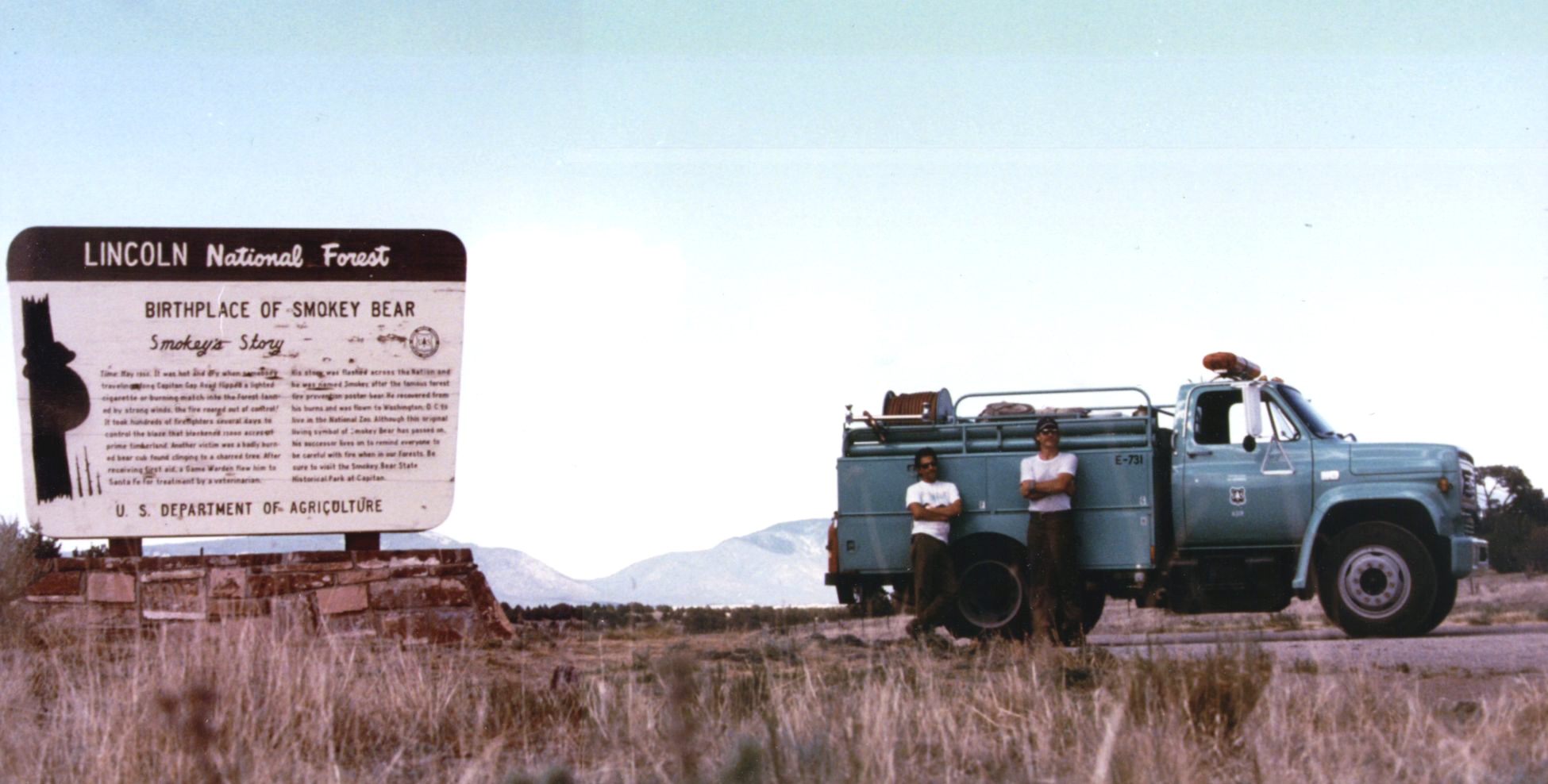 The Capitan Gap Fire, and the discovery point of the real life Smokey Bear, was at the pass between the Engine and the sign. Tahoe National Forest Fire Engine 731 with Crew (Assistant Engineer Ruben Villa and Engineer Dan Mitchell) were temporarily assigned to the Capitan Ranger District of the Lincoln National Forest in June 1990.